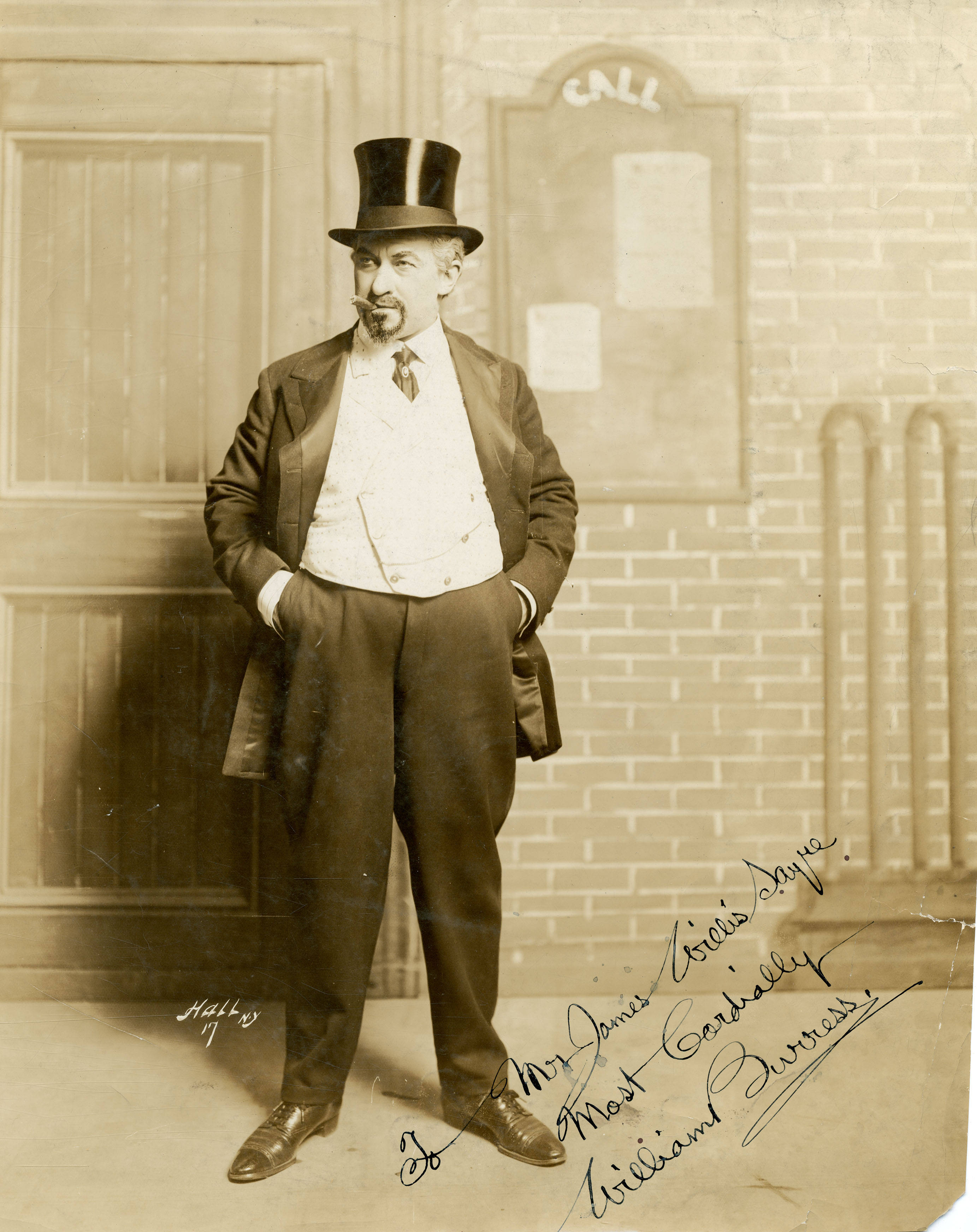 William Burress Subjects: actors